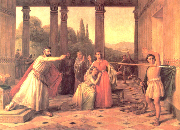 Saul Throwing his Spear at David